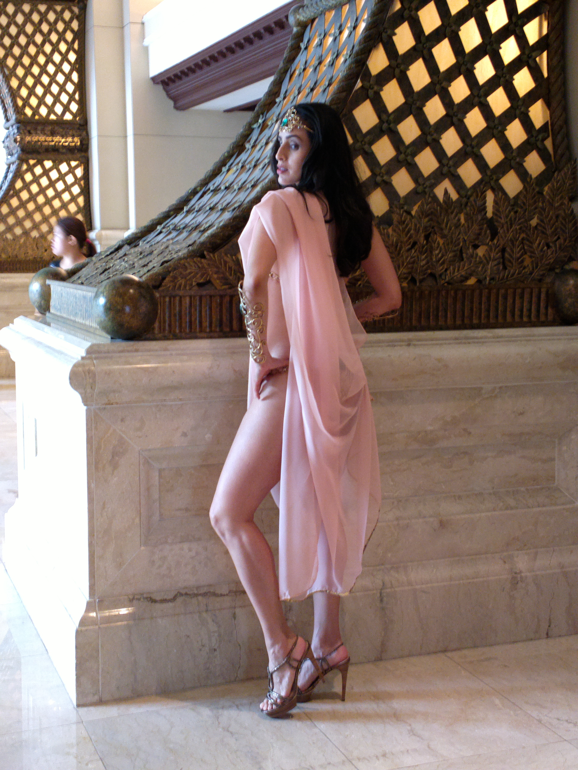 Valerie Perez cosplaying as Dejah Thoris at SDCC 2012.